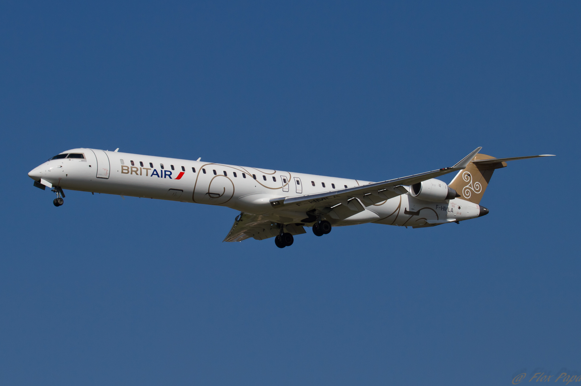 CRJ 1000, MSN 19004, Britair, F-HMLA